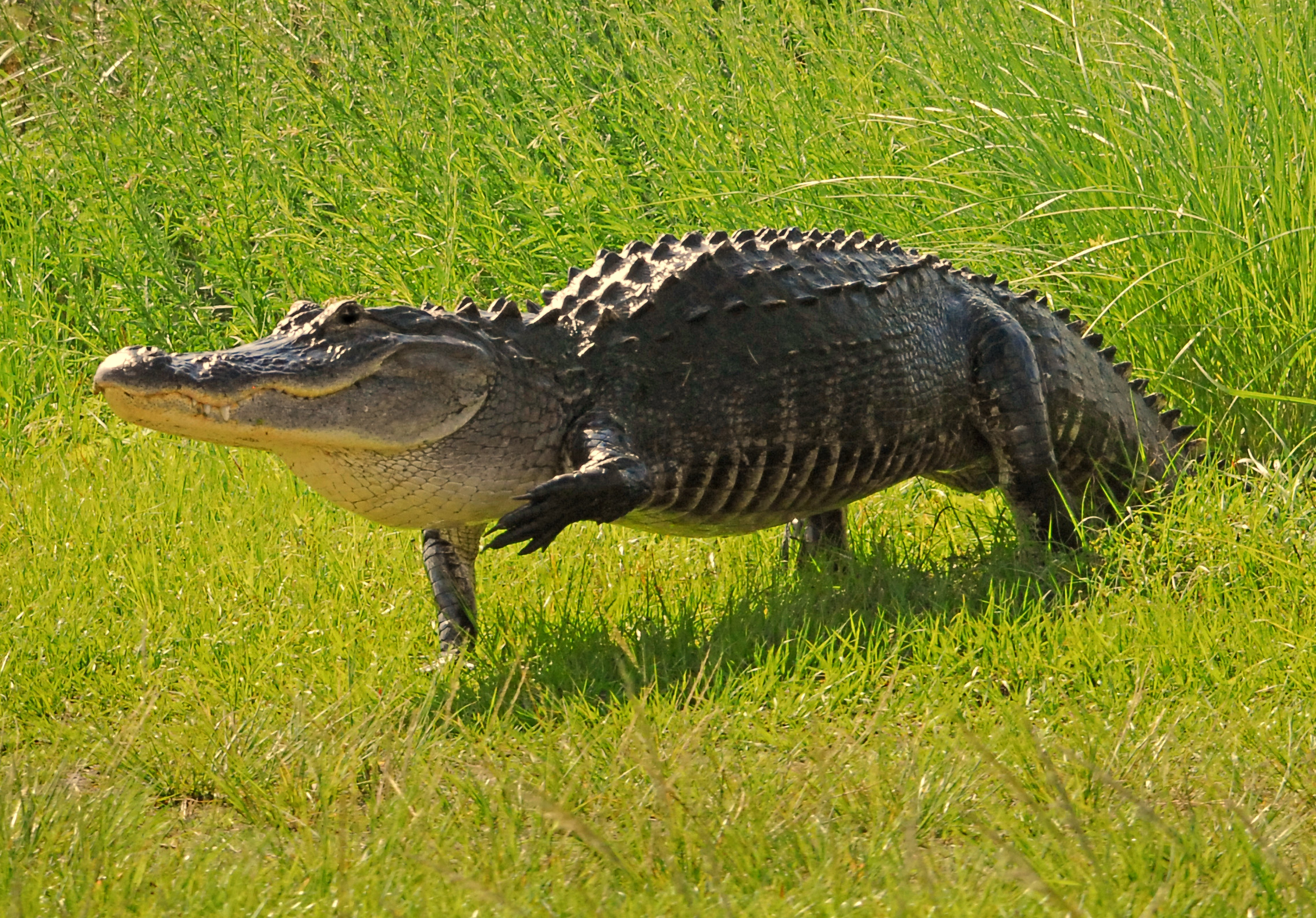 Big Walking Gator at lake Woodruff. © Andrea Westmoreland.